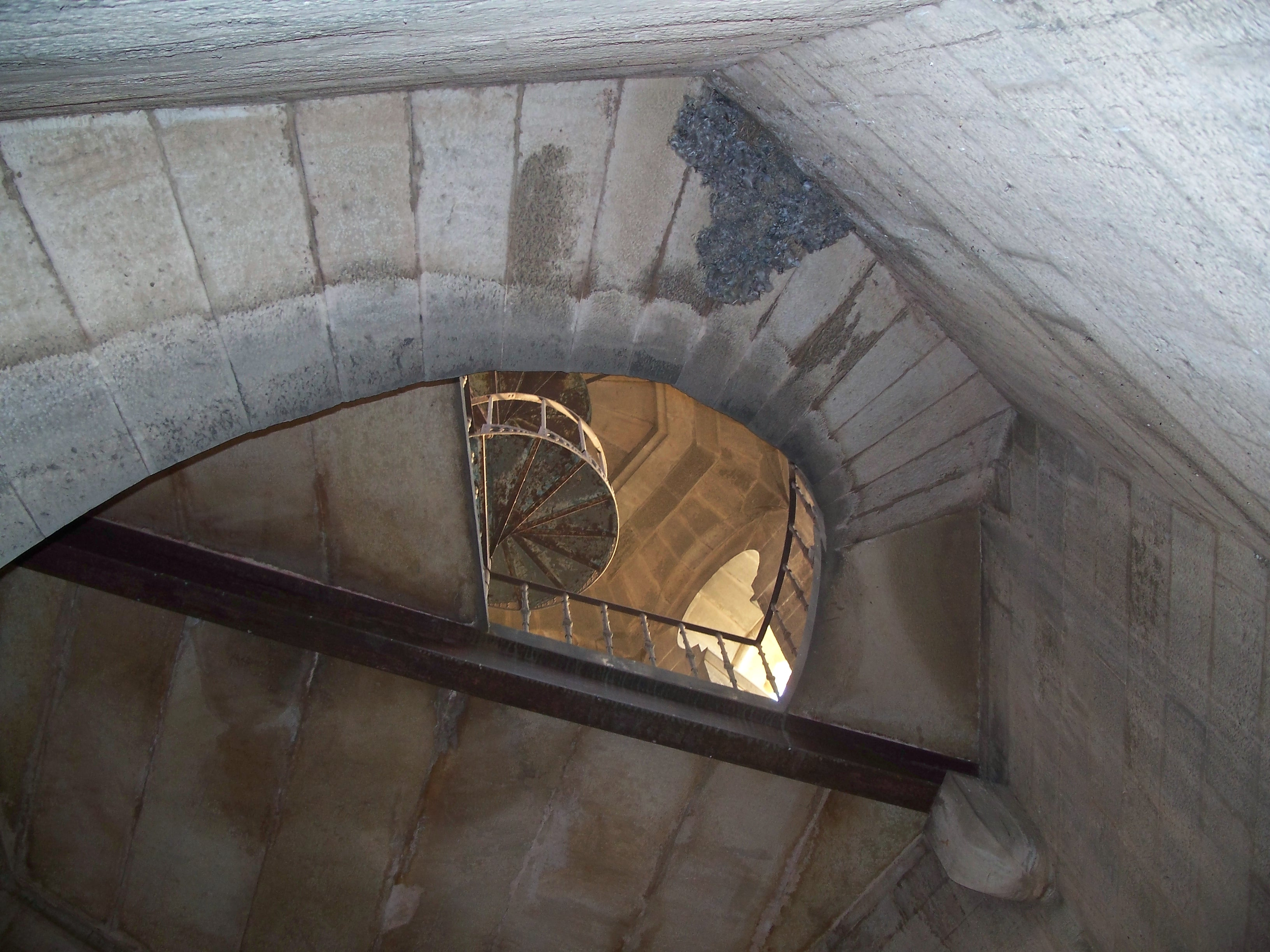 Another photo of the tower stair, getting closer to the top